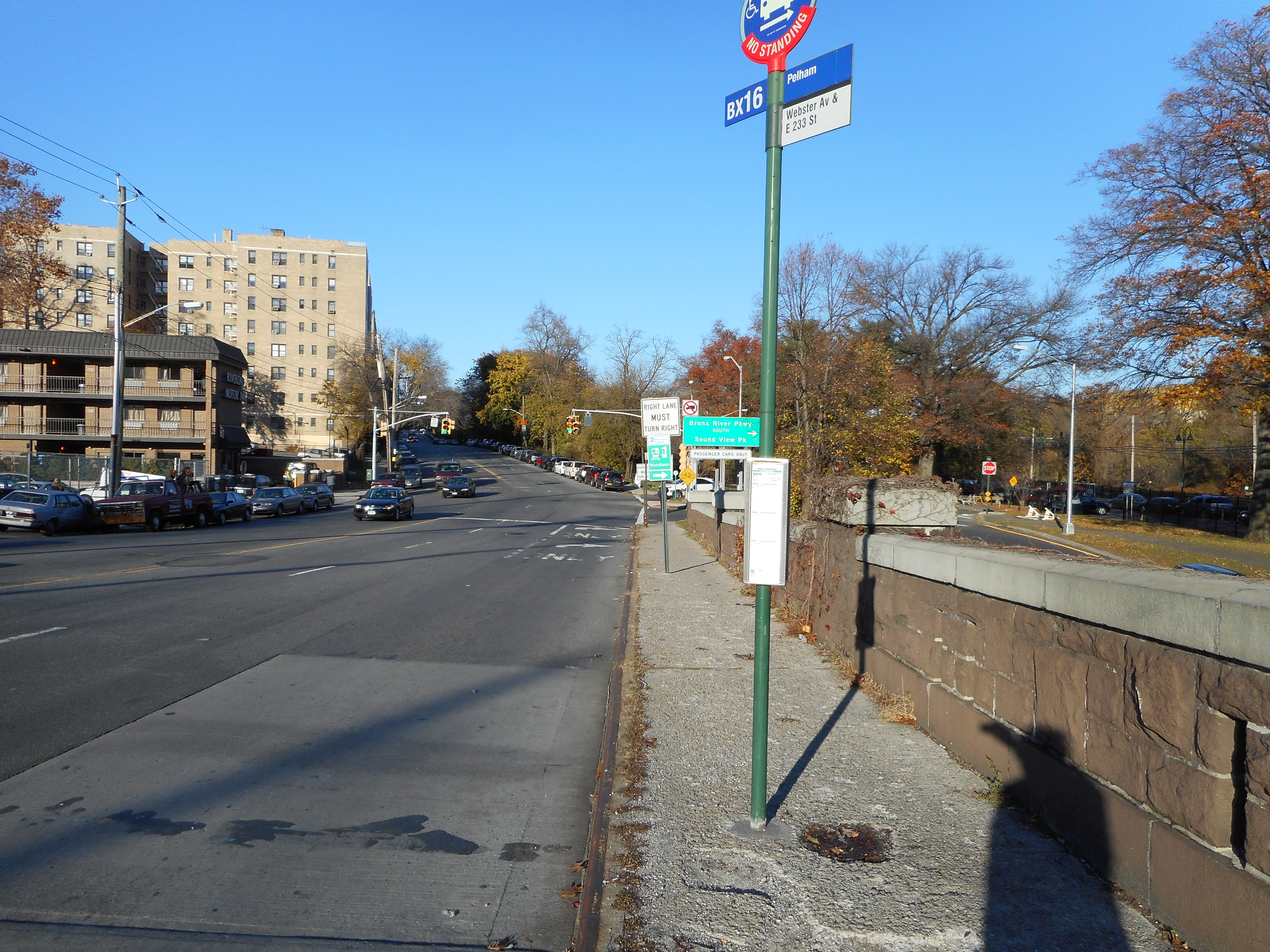 A bus stop along Webster Avenue that can be used for commuters of the Woodlawn (Metro-North station).